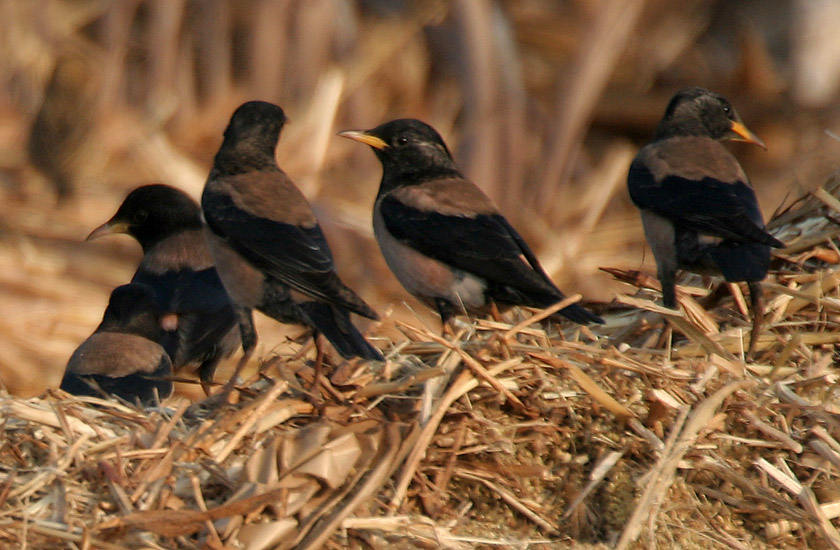 Rosy Starling, or Rose-coloured Starling Sturnus roseus near Hyderabad, India.